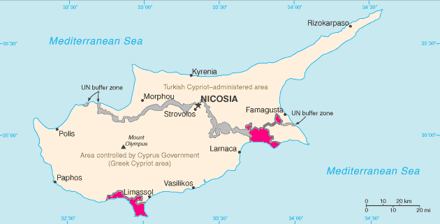 Map of Cyprus with WSBA and ESBA in pink, the traditional colour on maps for British possessions. The map is adapted from the CIA World Factbook map.